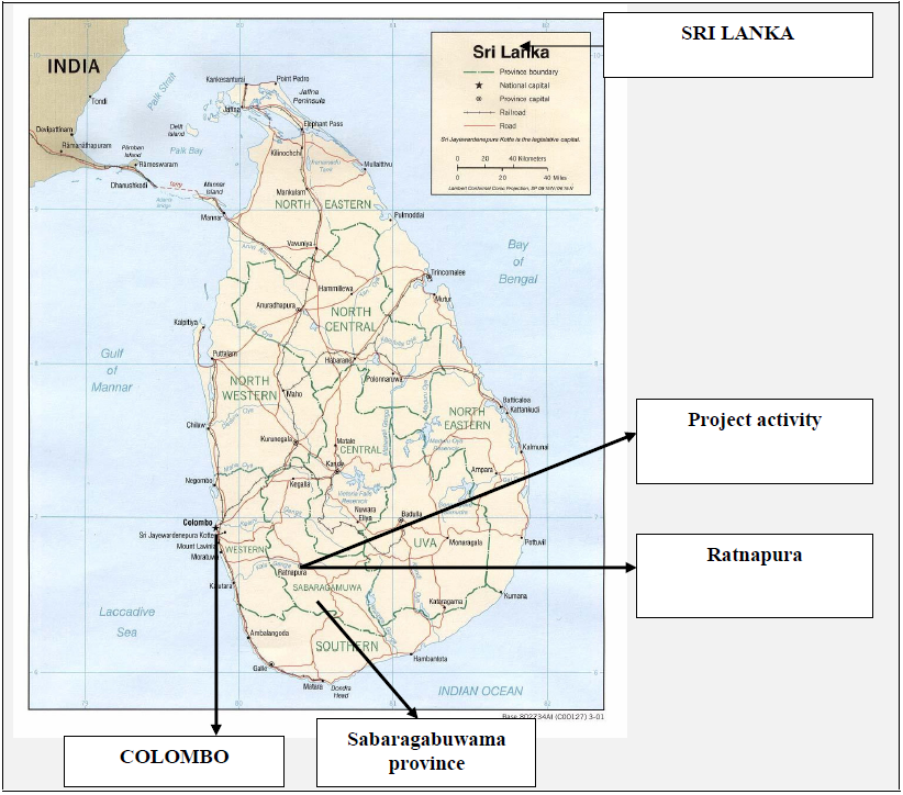 location map